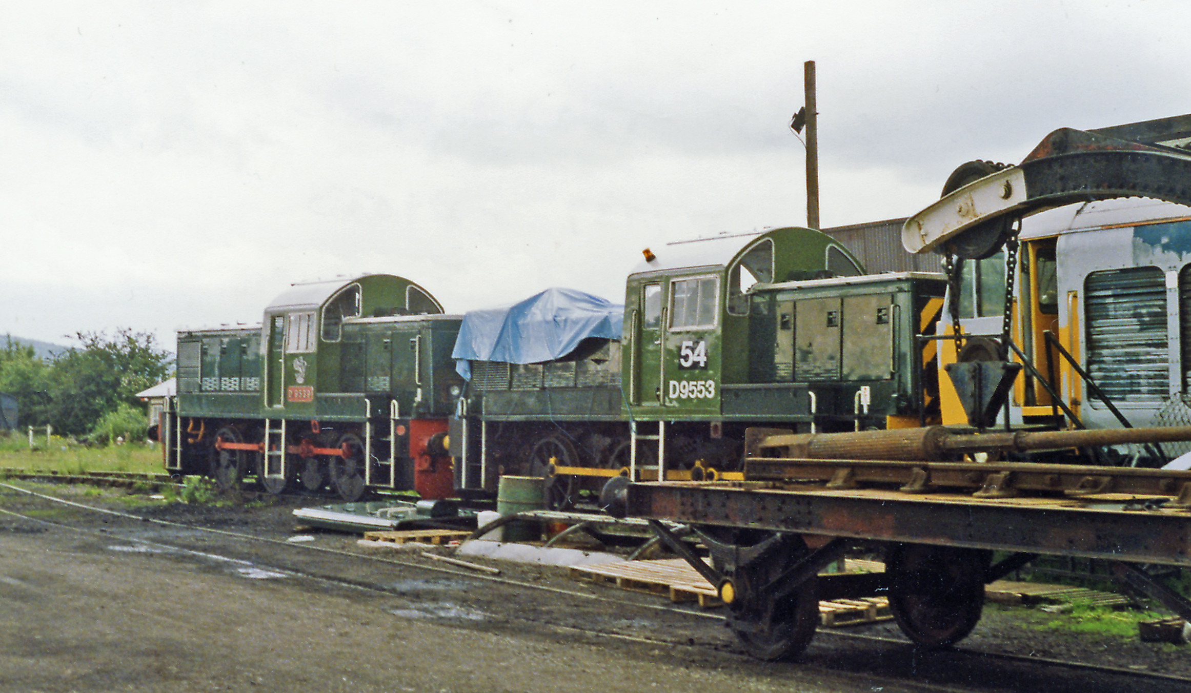 Two Class 14 Diesels at Toddington, Gloucestershire & Warwickshire Railway, 1993. All these Class 14 0-6-0 Diesel-hydraulic locomotives, which were built in 1965, were all withdrawn by BR in 4/68 - mainly because there was no work for them! No. D9539 (on the left) worked for British Steel at Corby until 2/83 and is now preserved on the Ribble Steam Railway. No. D9553 (nearer) has found a home here on the Gloucestershire - Warwickshire Railway.